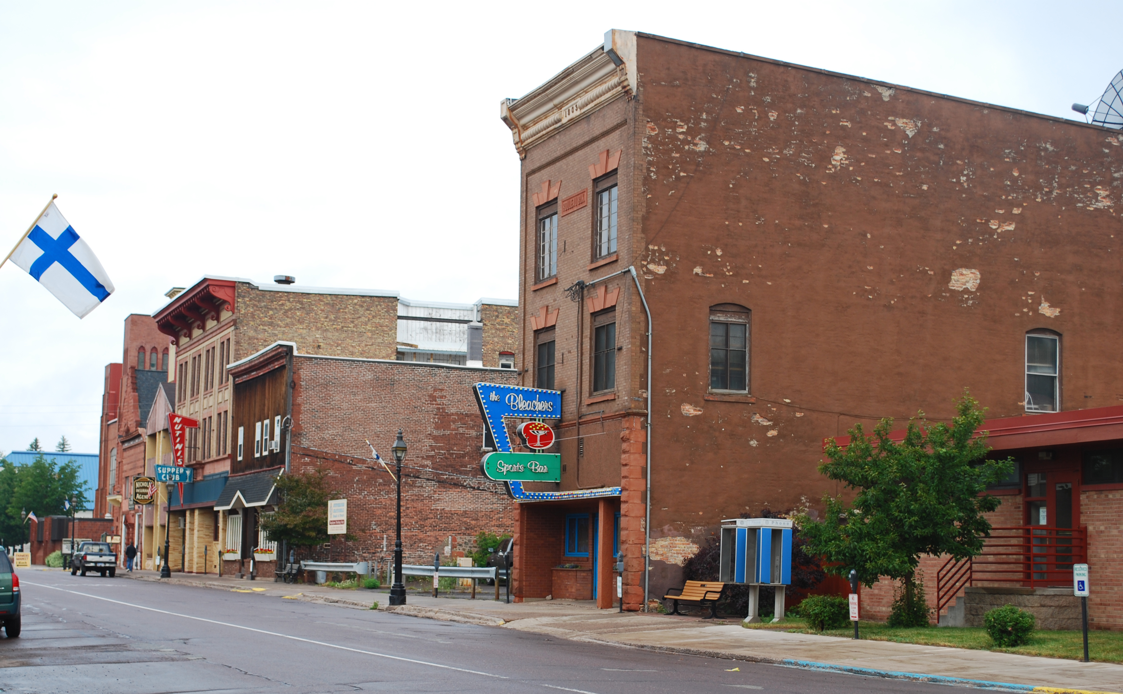 Quincy Street Historic District Hancock MI 300 block North side